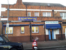 White City Mosque, the Major mosque in West London